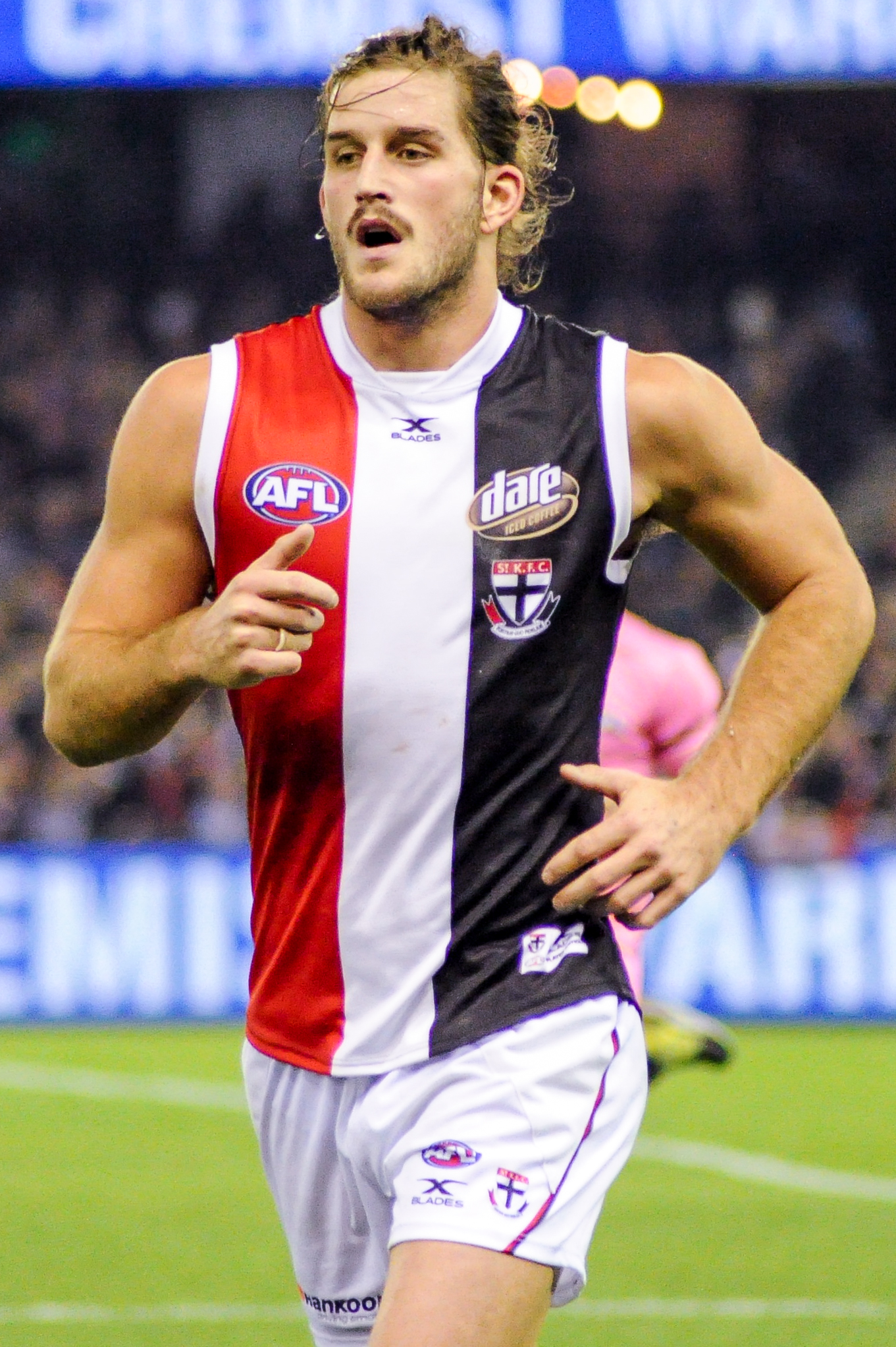 Josh Bruce during the AFL round thirteen match between North Melbourne and St Kilda on 16 June 2017 at Etihad Stadium in Melbourne, Victoria.